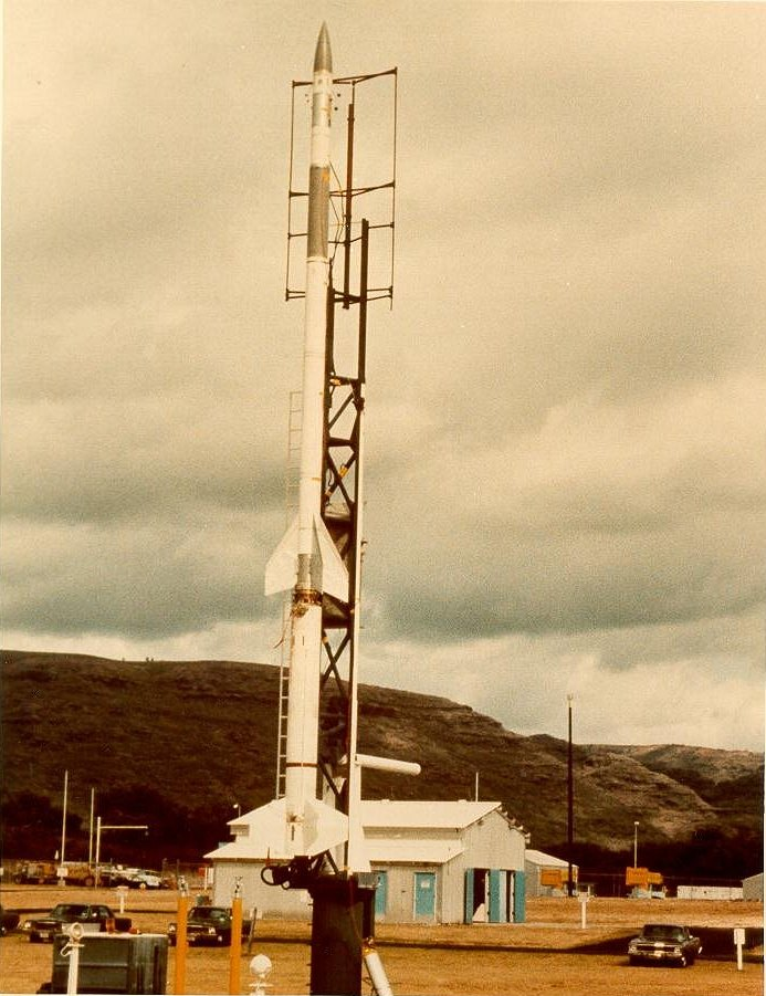 The last Terrier-Sandhawk was flown on September 12, 1977, from Sandia's Kauai Test Facility as an X-ray experiment. url=